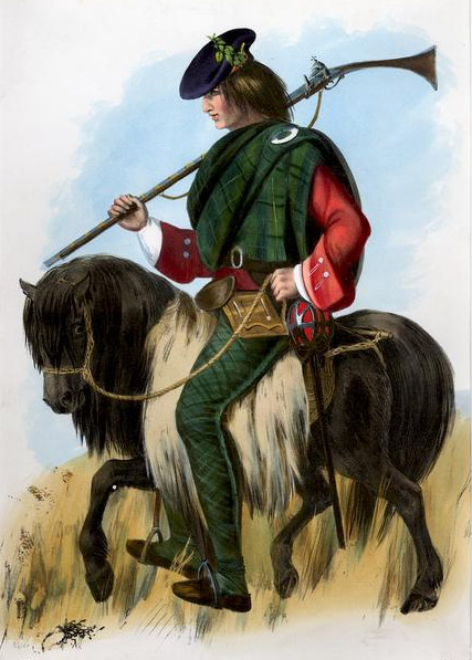 "Mac Neil". A plate illustrated by R. R. McIan, from James Logan's The Clans of the Scottish Highlands, published in 1845.